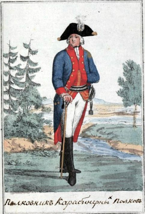 Colonel of Russian Carabineer Regiment